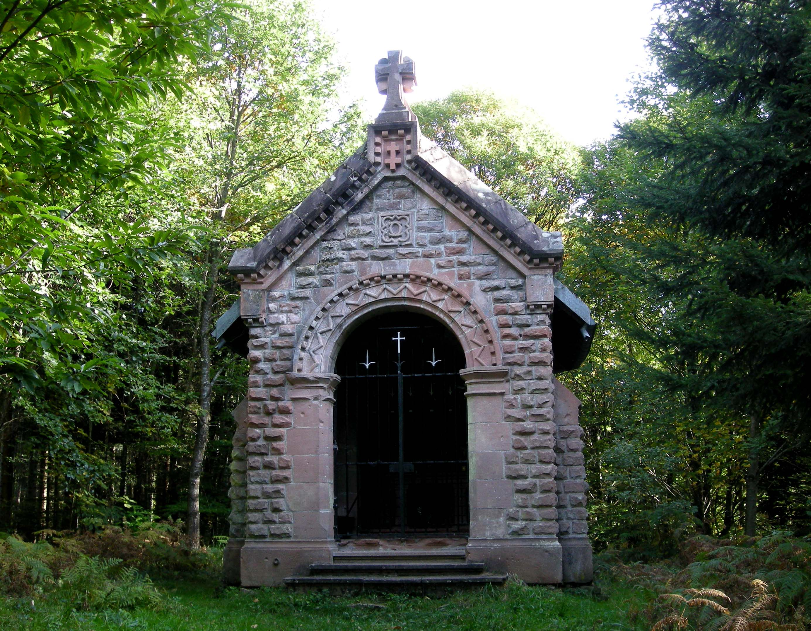 Chapel at Col de la Chapelotte (mountain pass in Meurthe-et-Moselle)